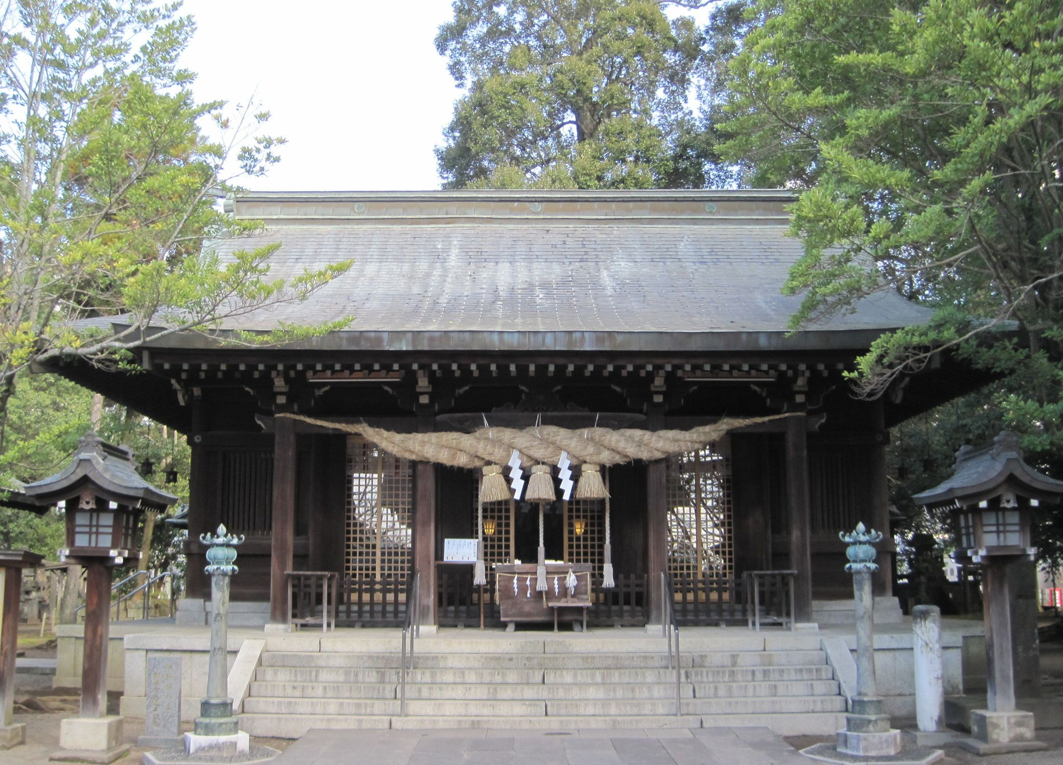 shrine